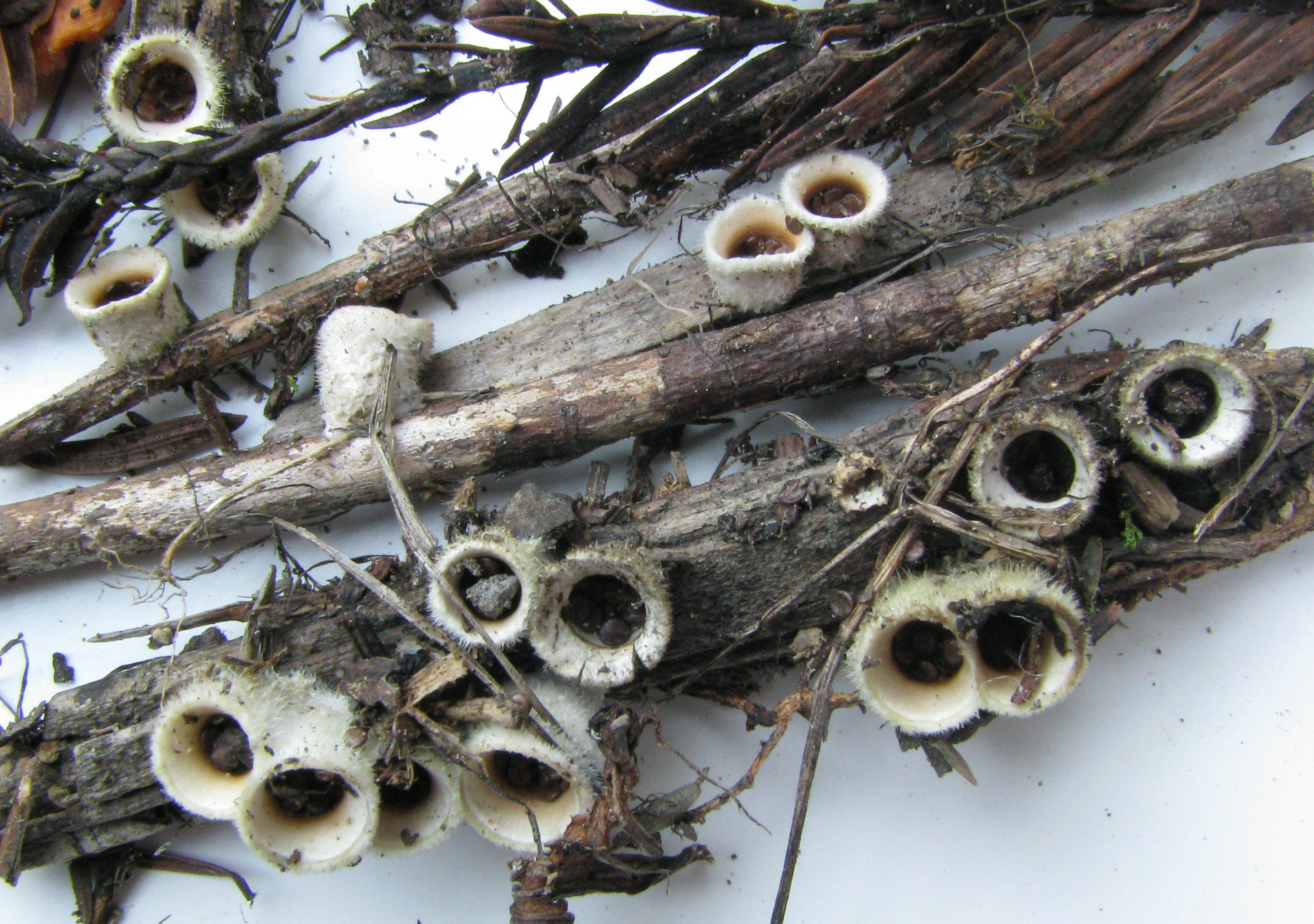 The bird's nest fungi Nidula niveo-tomentosa (Henn.) Lloyd. Specimen photographed at the SOMA Camp, Occidental, Sonoma Co., California, USA.